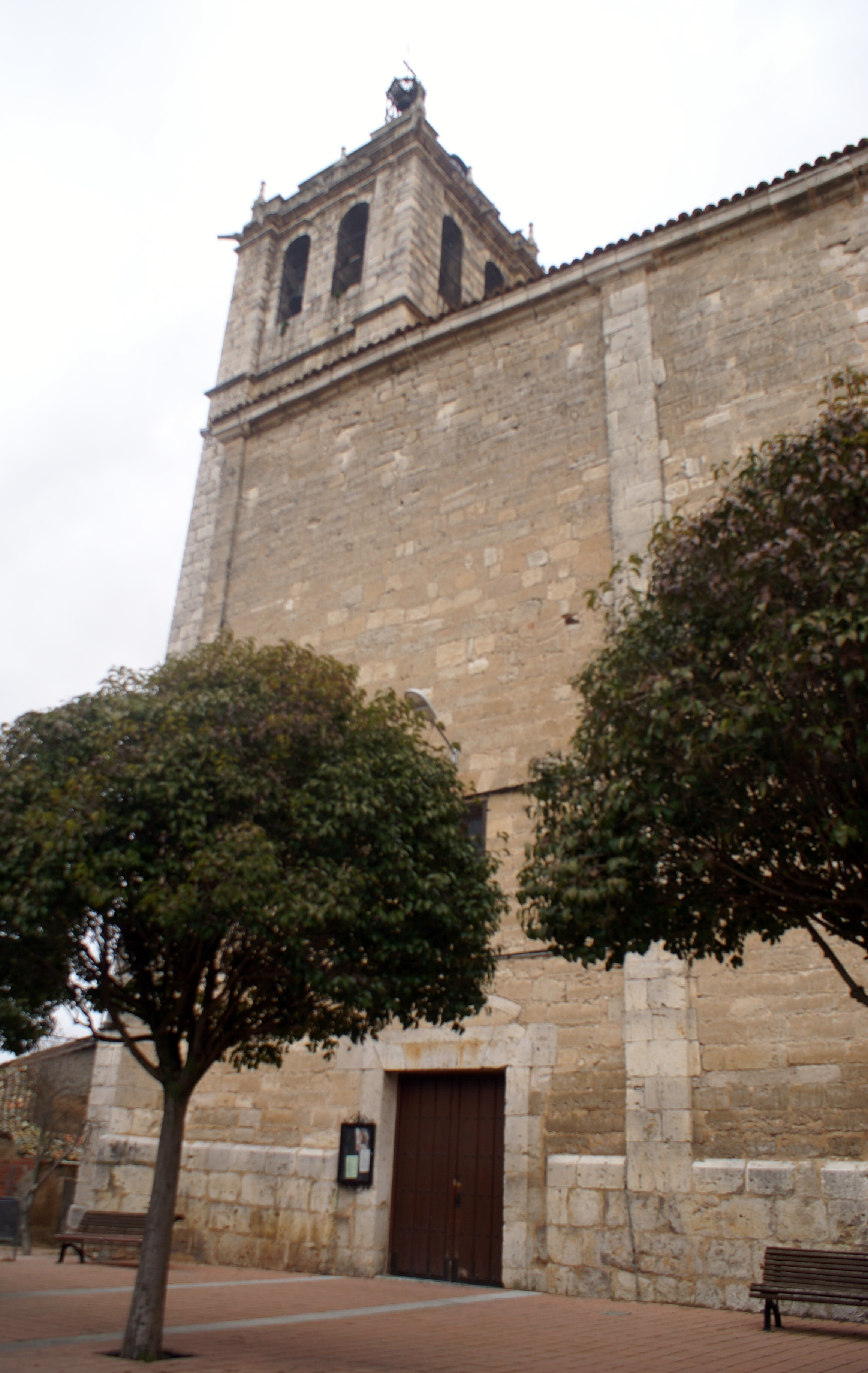 Church of Cabezón de Pisuerga, Valladolid, Spain.